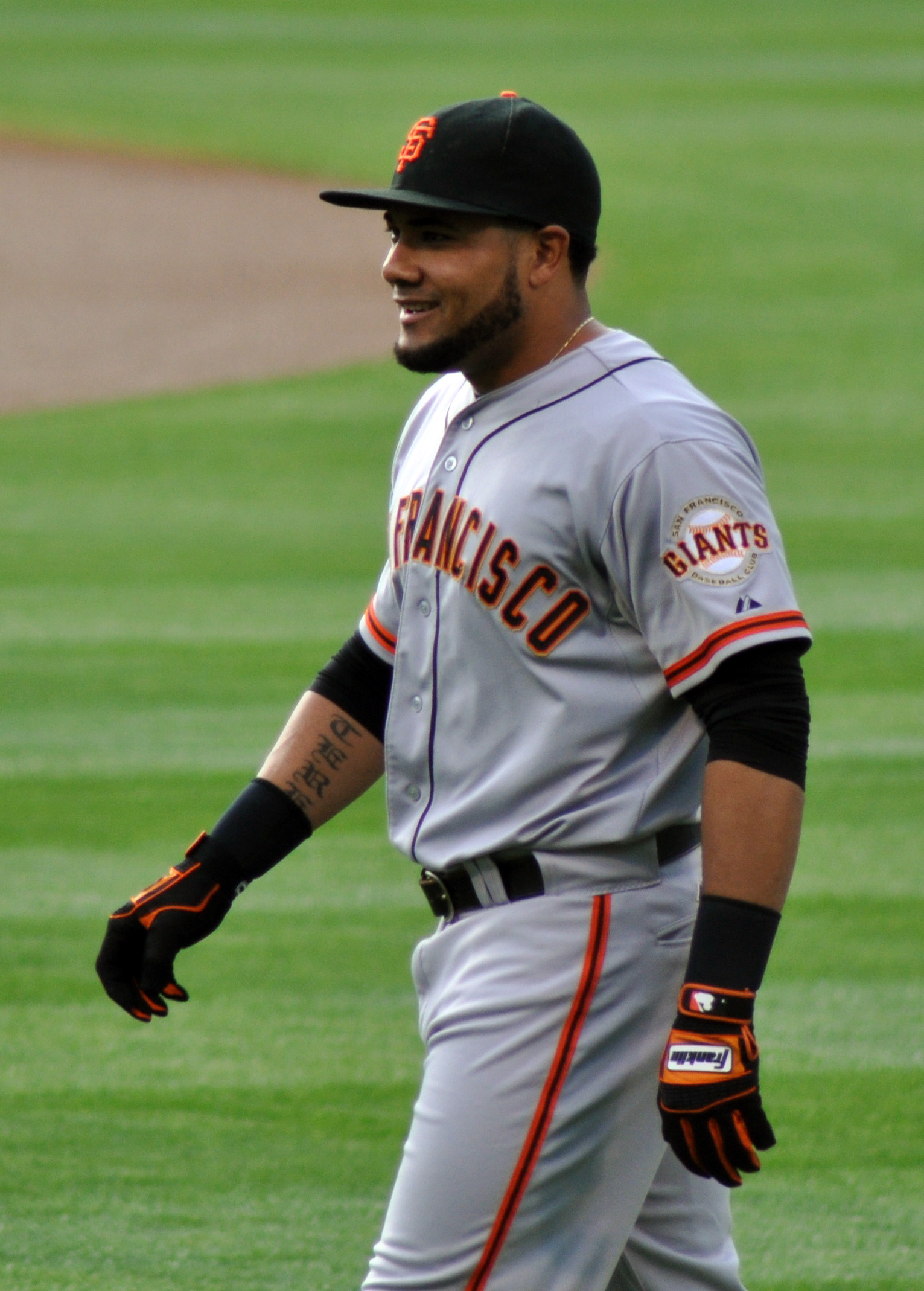 Melky Cabrera playing for the Giants in June 2012.